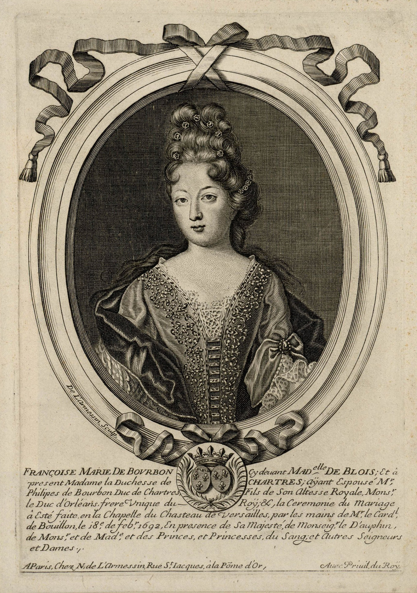 Print of Françoise-Marie de Bourbon as the Duchess of Chartres; it shows the illegitimate arms she held